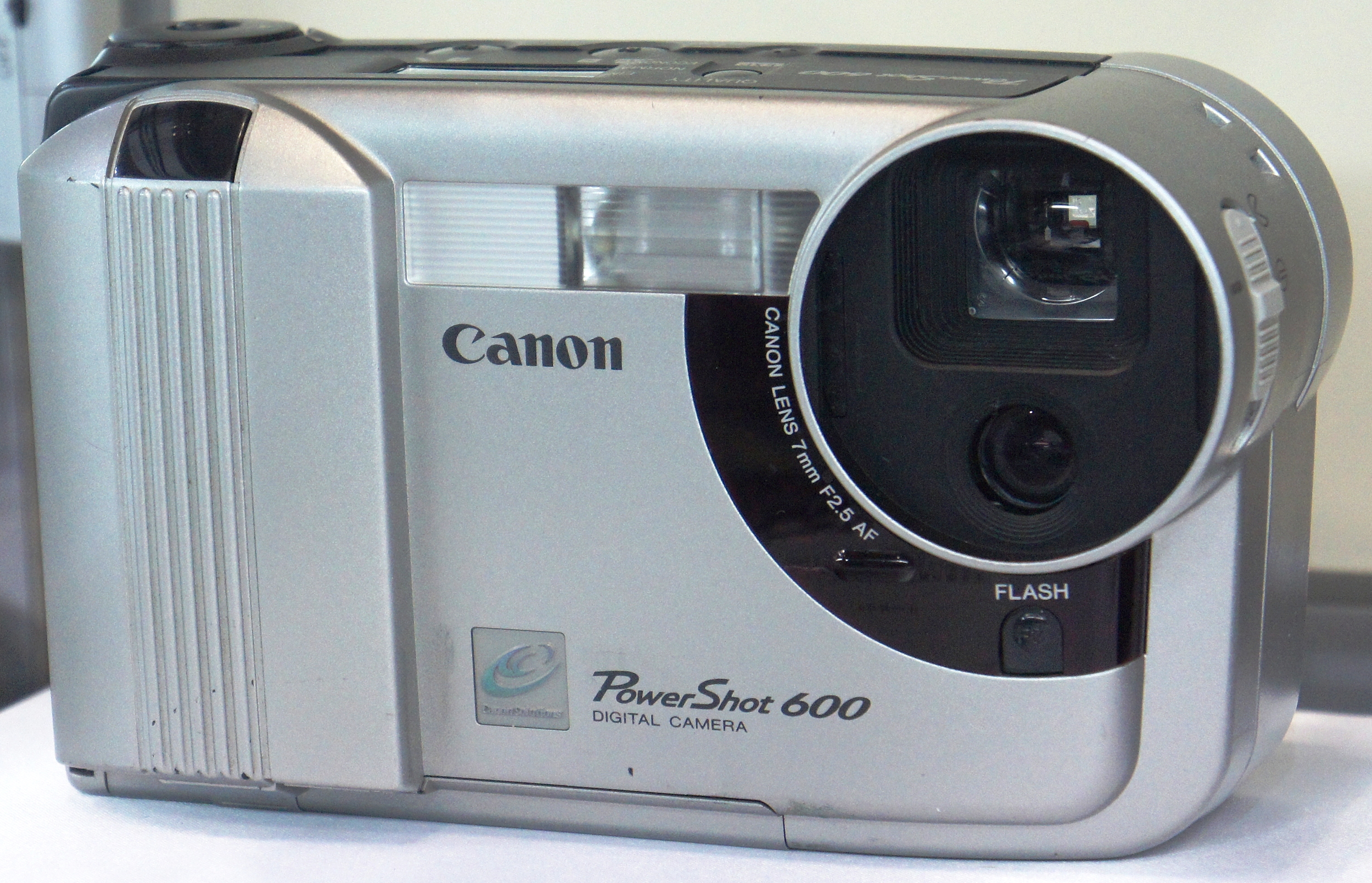 CP+ 2011: 1996 Canon PowerShot 600